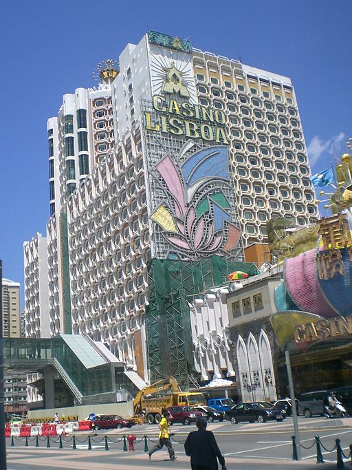 Photo of the Lisboa Casino, located in Sé, Macau taken during the day